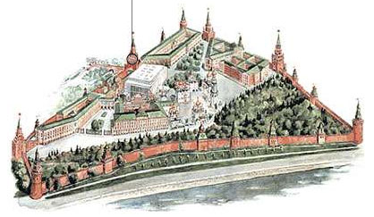 Overview map of the Moscow Kremlin. Location of Troitskaya Tower marked.